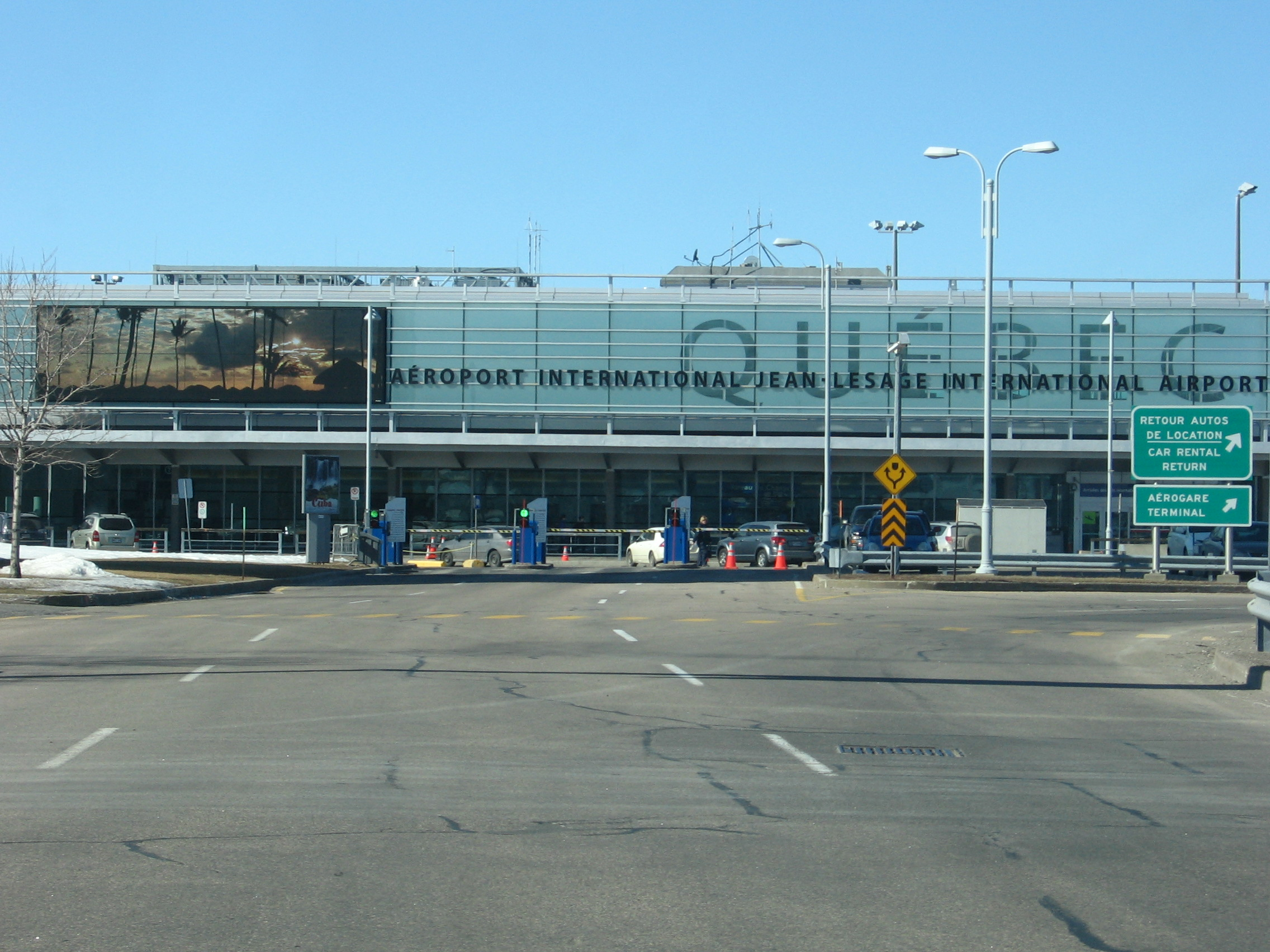 New airport terminal